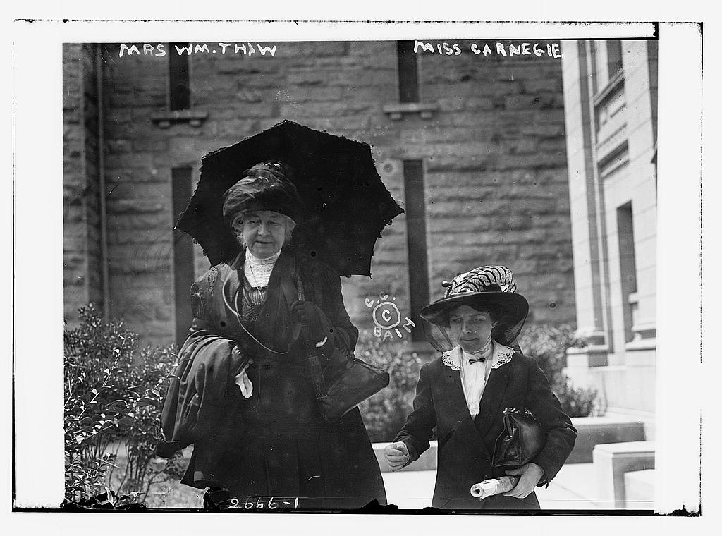 Mrs. Wm. Thaw, Miss Carnegie (LOC) Mary Sibbet Copley and Margaret Copley Thaw circa 1912 Bain News Service,, publisher. Mrs. Wm. Thaw, Miss Carnegie [between ca. 1910 and ca. 1915] 1 negative : glass ; 5 x 7 in. or smaller. Notes: Title from unverified data provided by the Bain News Service on the negatives or caption cards. Forms part of: George Grantham Bain Collection (Library of Congress). Format: Glass negatives. Repository: Library of Congress, Prints and Photographs Division, Washington, D.C. 20540 USA, General information about the Bain Collection is available at Persistent URL: Call Number: LC-B2- 2666-1